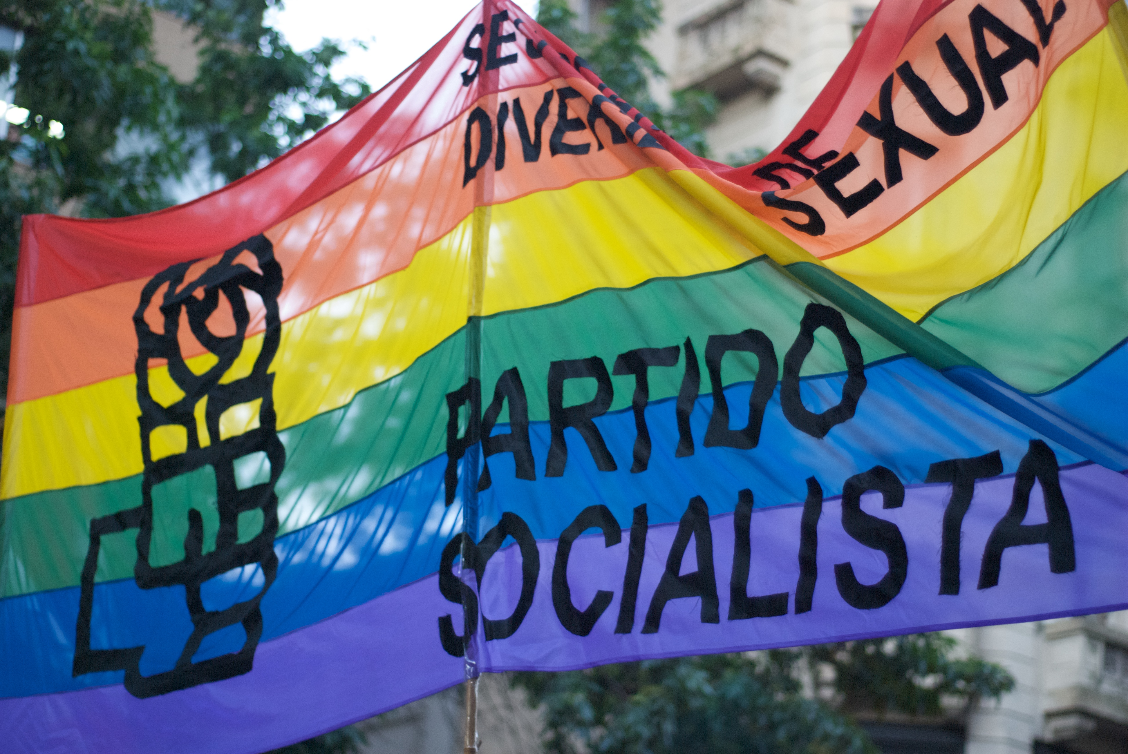 A right-winger's ultimate nightmare